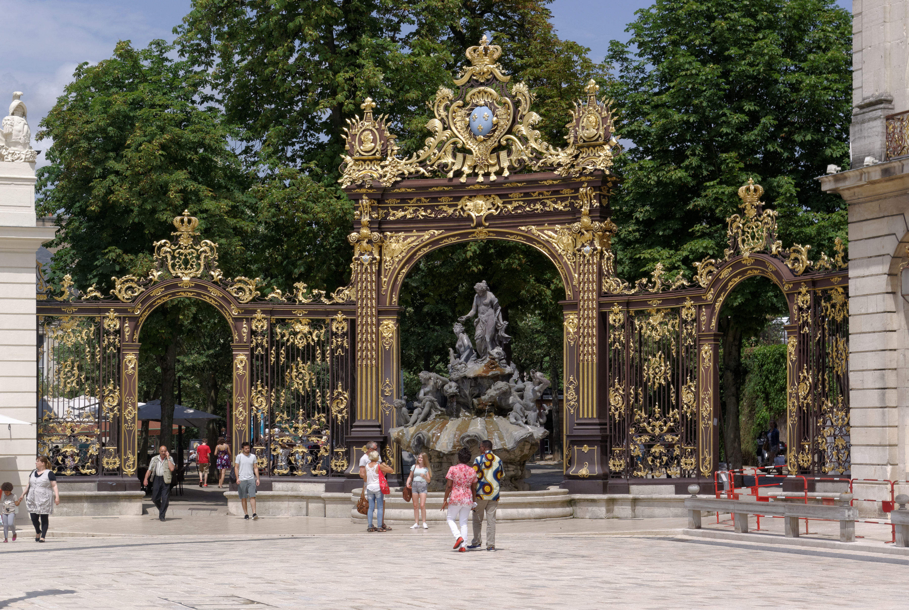 France, Nancy, Fontaine d'Amphitrite (place Stanislas)